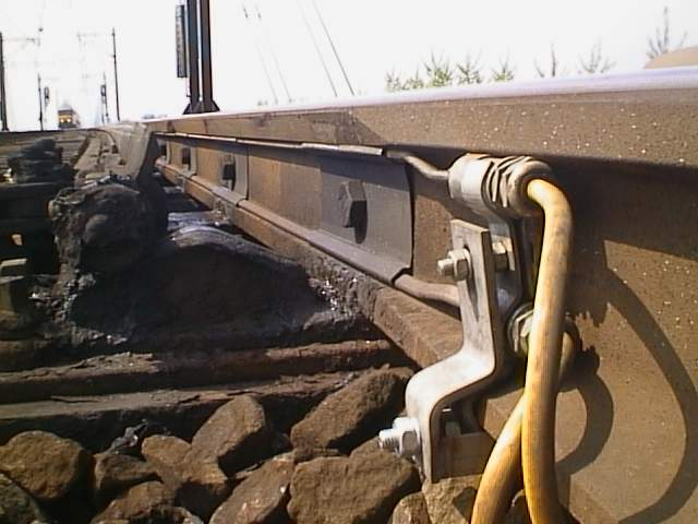 Point heating